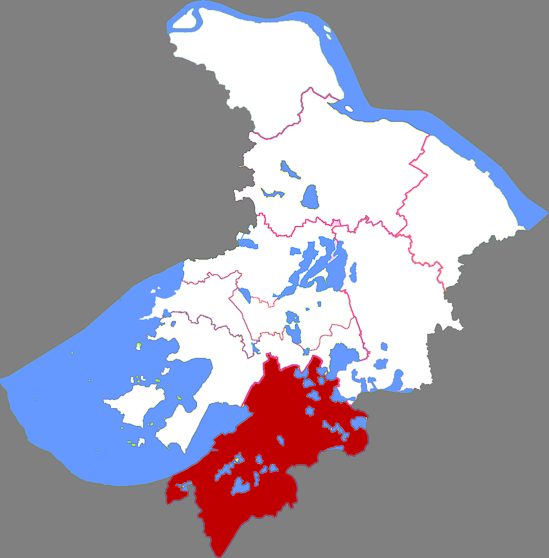 Location of Wujiang district in Suzhou city of Jiangsu province, China